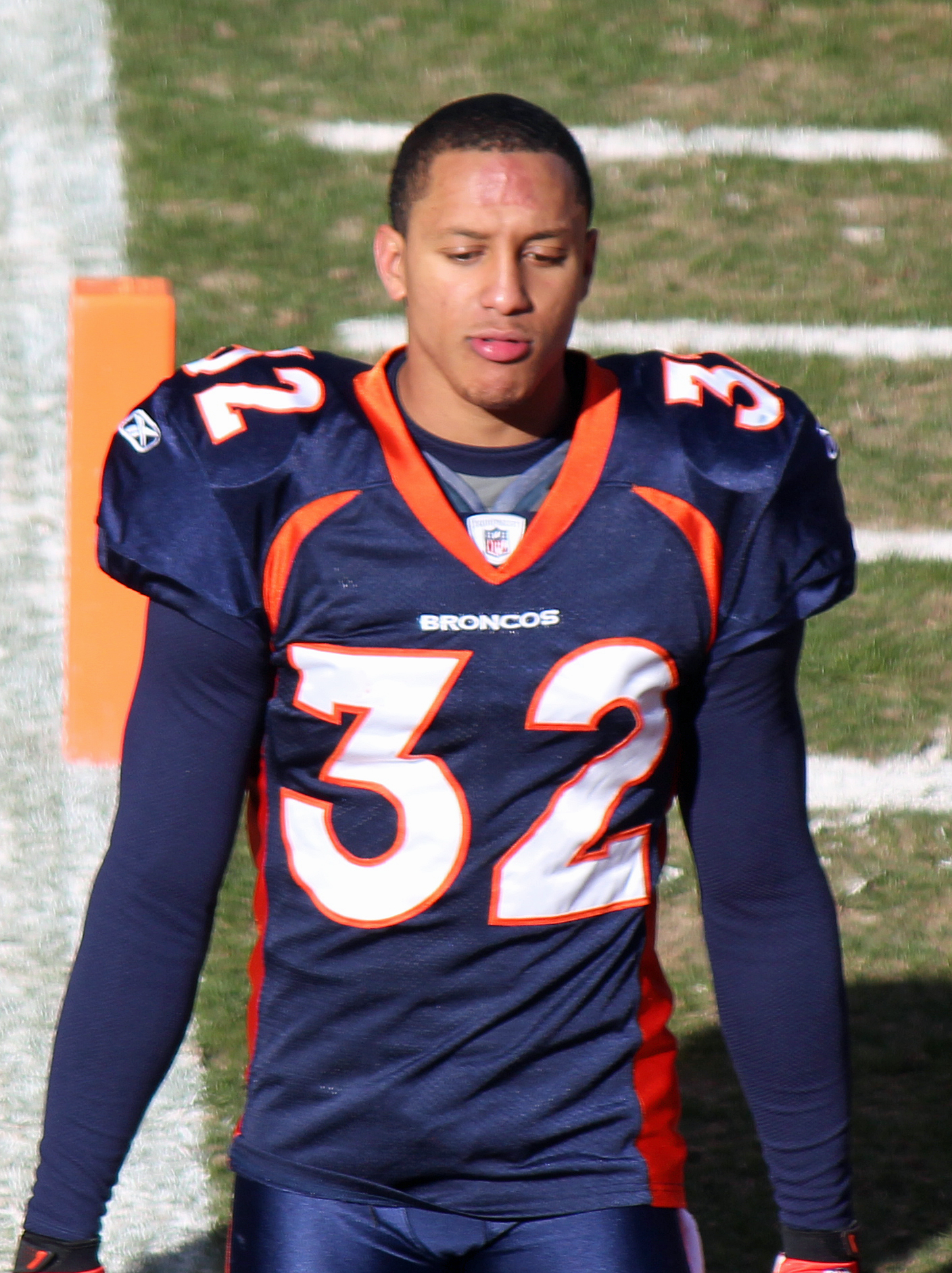 Tony Carter, a player on the National Football League.